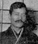 Kitamura, Sueharu(1872-1931)